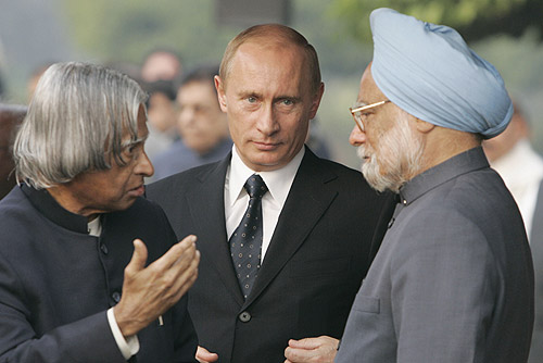 NEW DELHI. Official reception hosted by Indian President Abdul Kalam to celebrate the Republic Day national holiday. With Indian President Abdul Kalam (on the left) and Indian Prime Minister Manmohan Singh.